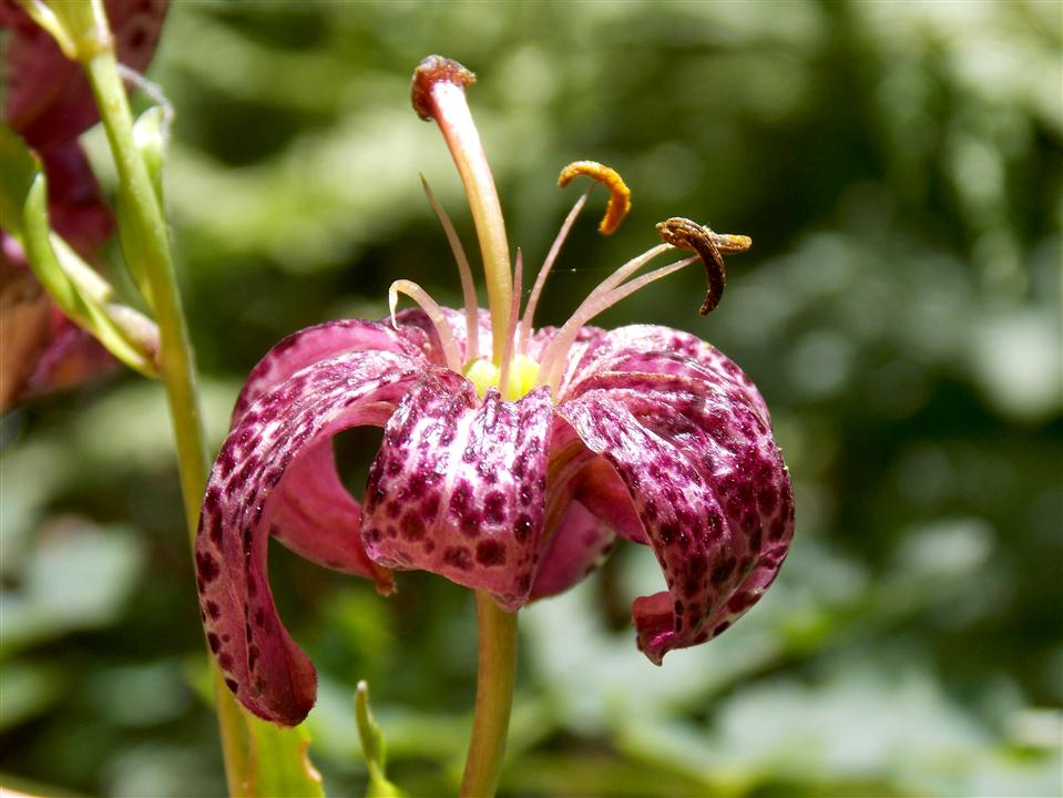 Raska Municipality - Kopaonik